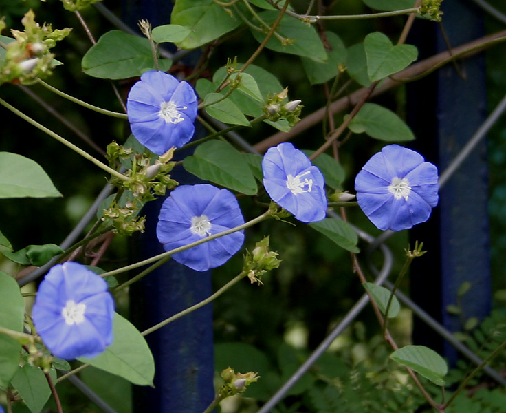 Jacquemontia violacea syn. Jacquemontia pentantha in Hyderabad , India.